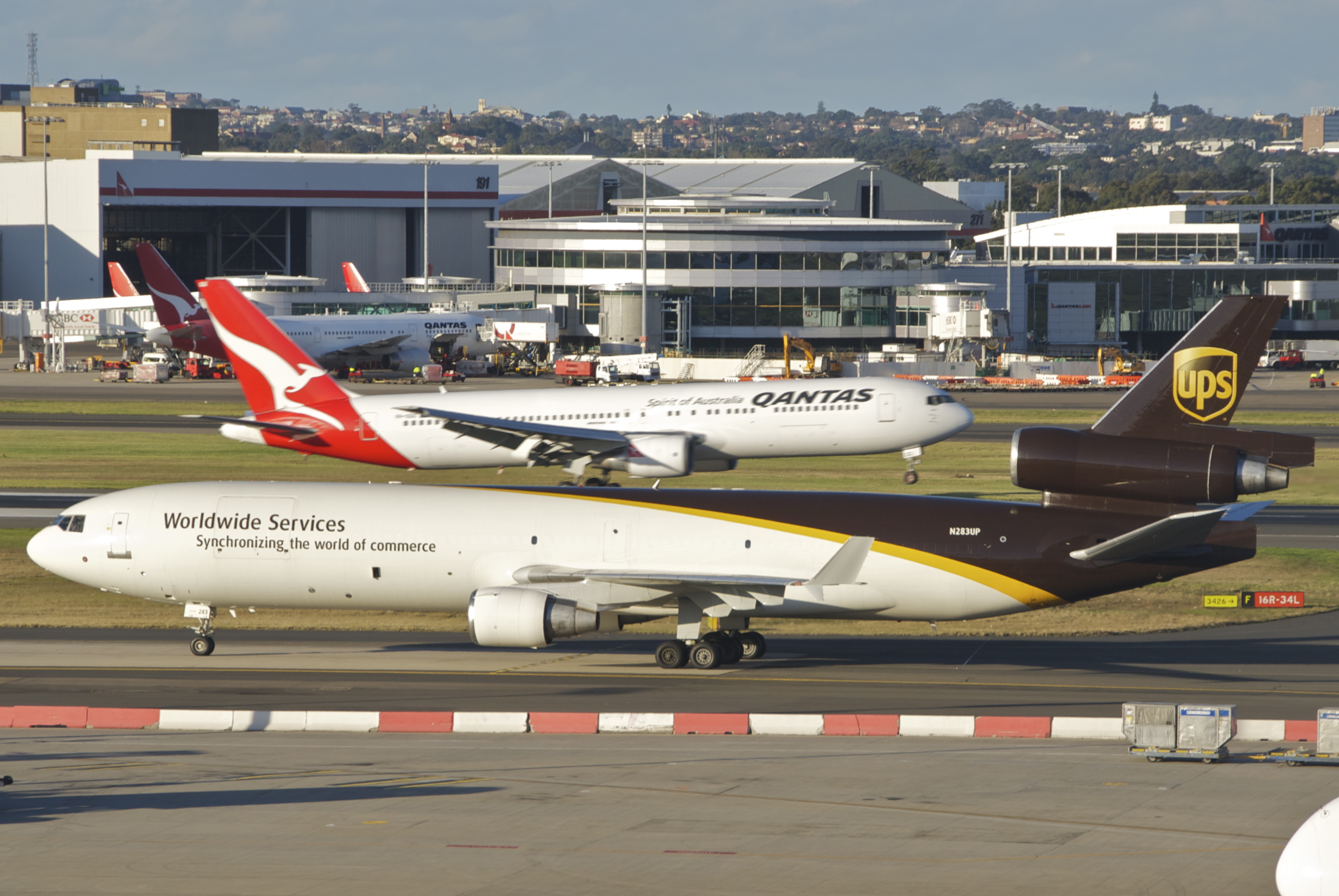 First flight: December 9, 1991...(c/n 48484/ 484) 19/12/1991 LTU D-AERB 27/10/1998 Swissair HB-IWR 31/03/2002 Swiss International Airlines HB-IWR stored at Mojave 08/05/03 31/08/2004 Air Namibia V5-NMC stored 30/11/05 06/12/2005 UPS N283UP